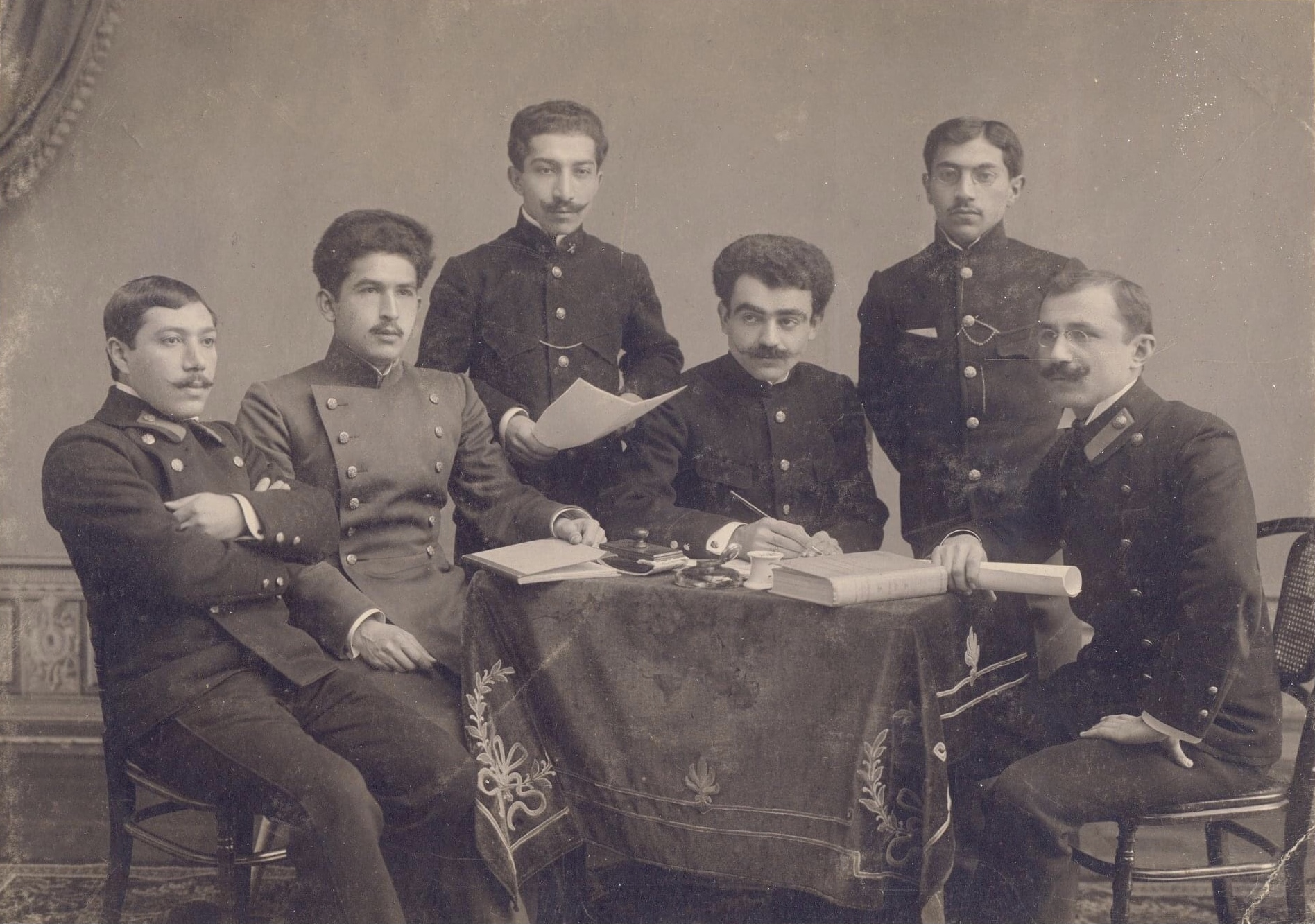 Azerbaijani students in Kyiv. From left: Gazanfar Musabekov, Abulfat khan Talishinski (Rustam Aliyev?), Jalil Mahammadzade, Yusif Vezir Chemenzeminli, Asad bey Akhundov, Gambay Rafibeyov (?).